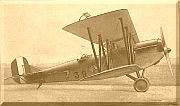 Italian Fiat BR.2 light bomber